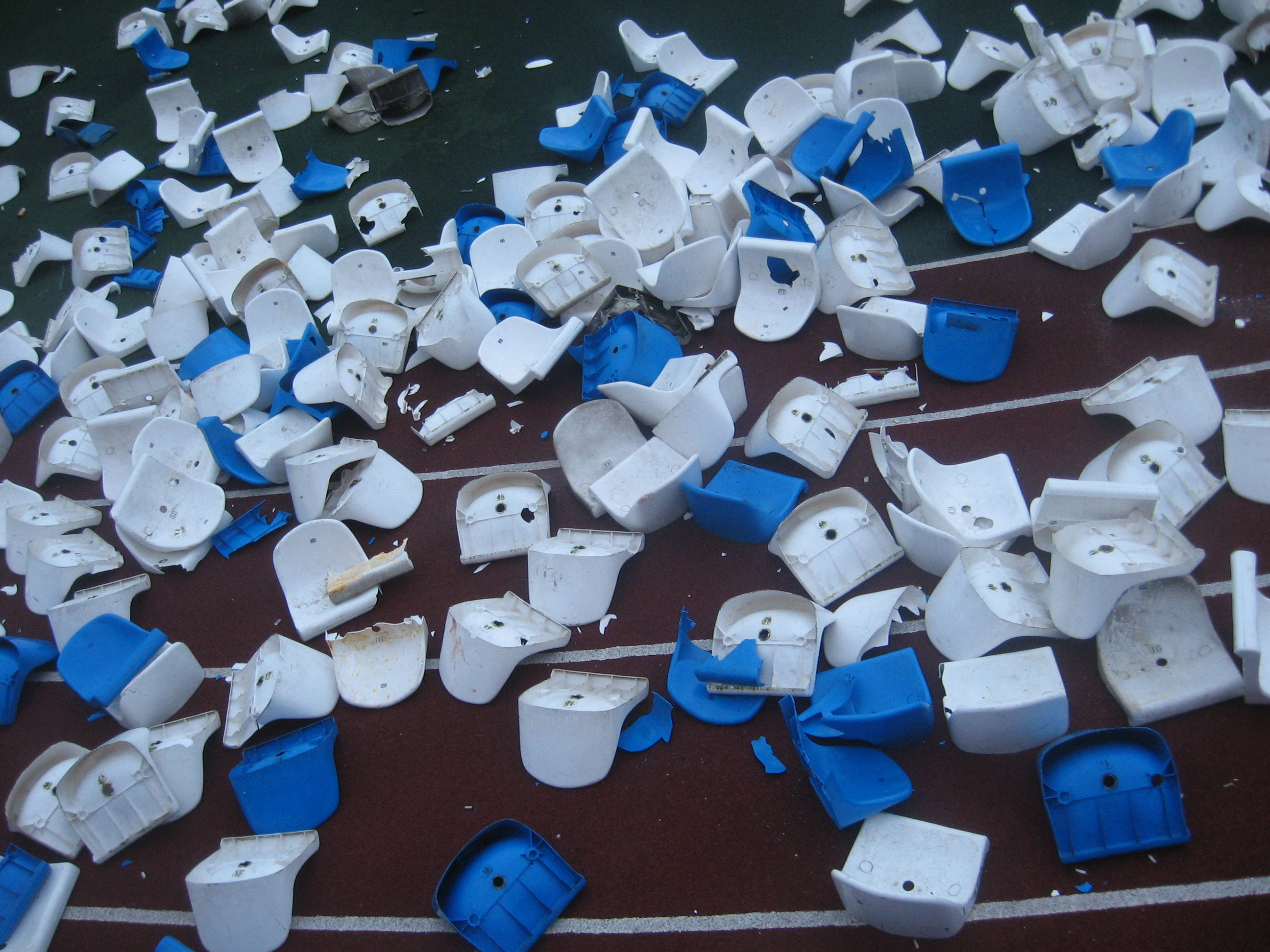 Broken plastic chairs on the stadion. After soccer hooligans' stadion visit. Bryansk, 2008